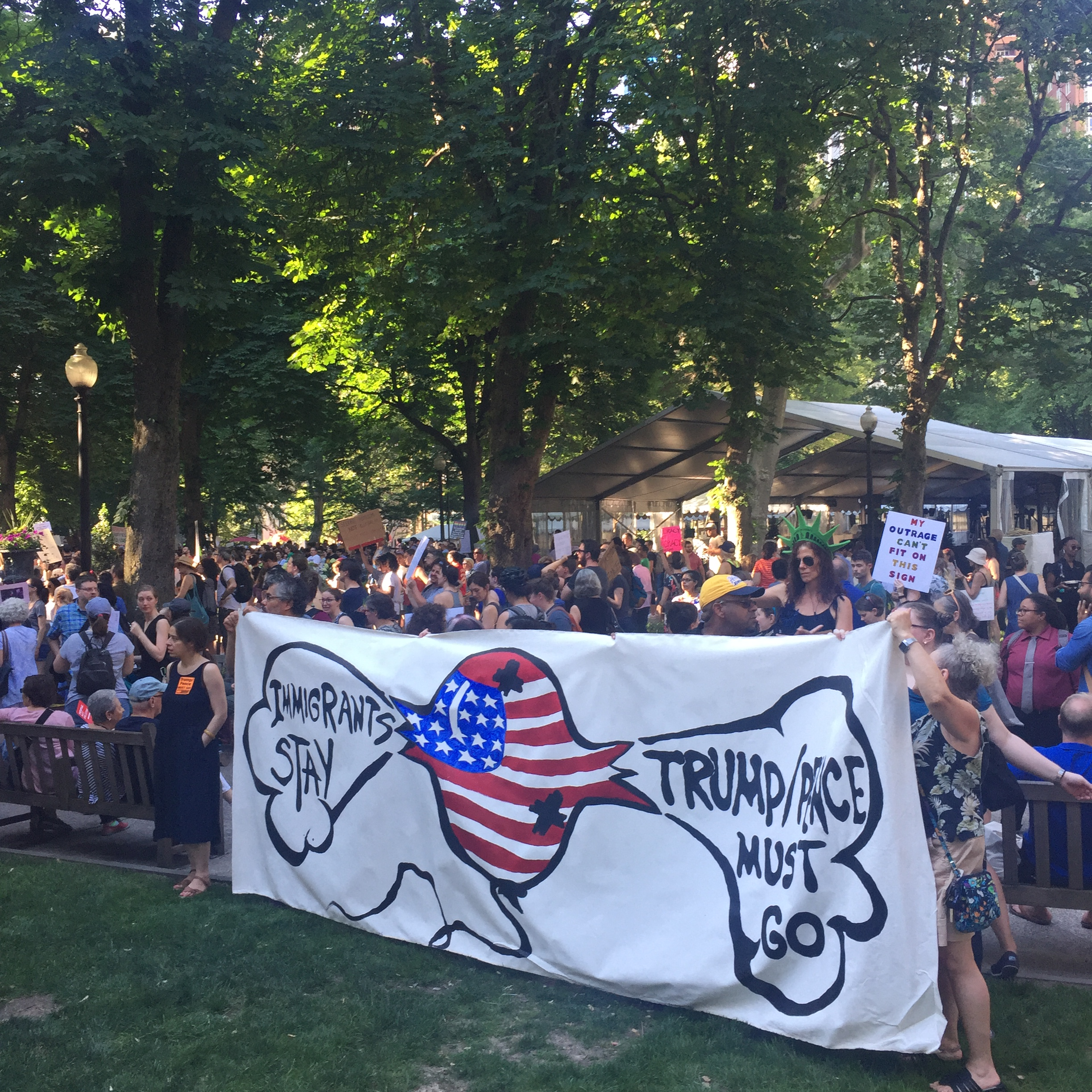 A protest against the U.S. Immigration and Customs Enforcement (ICE) in Philadelphia. The protest was specifically against the Trump Administration's "zero tolerance" policy separating children and parents at the US/Mexico border.